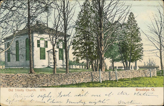 Caption: "Old Trinity Church. 1771. Brooklyn, Ct." From the reverse (undivided back): Postmark "May 3, 1907" "Published by the Rhode Island News Company, Providence, R.I." "Leipzig, Dresden"